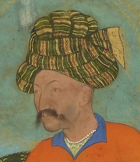 Abu'l Hasan. Jahangir Welcoming Shah 'Abbas, ca. 1618, Freer Gallery of Art, Washington DC